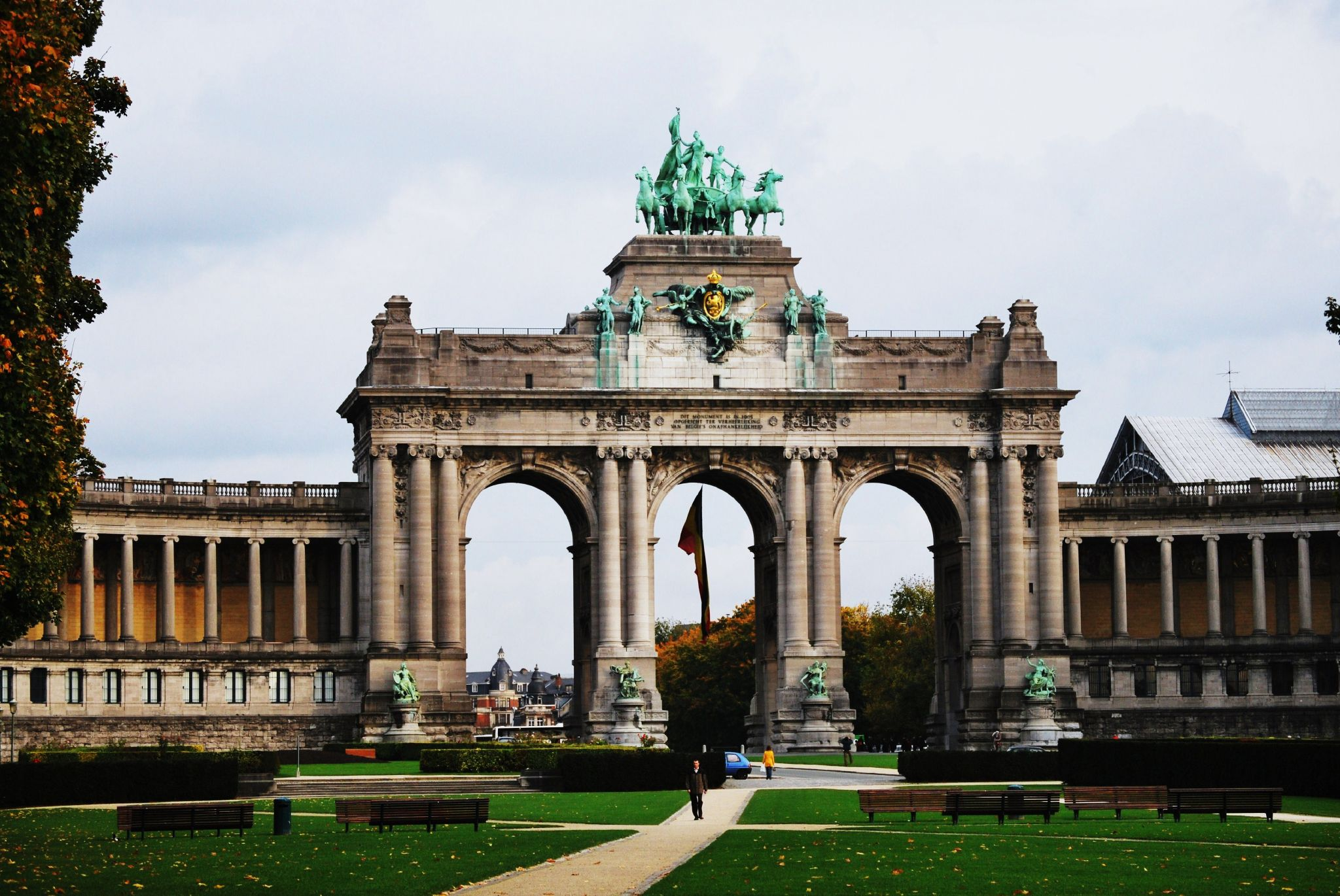 The triumphal arch in the Cinquantenaire Park in Brussels.